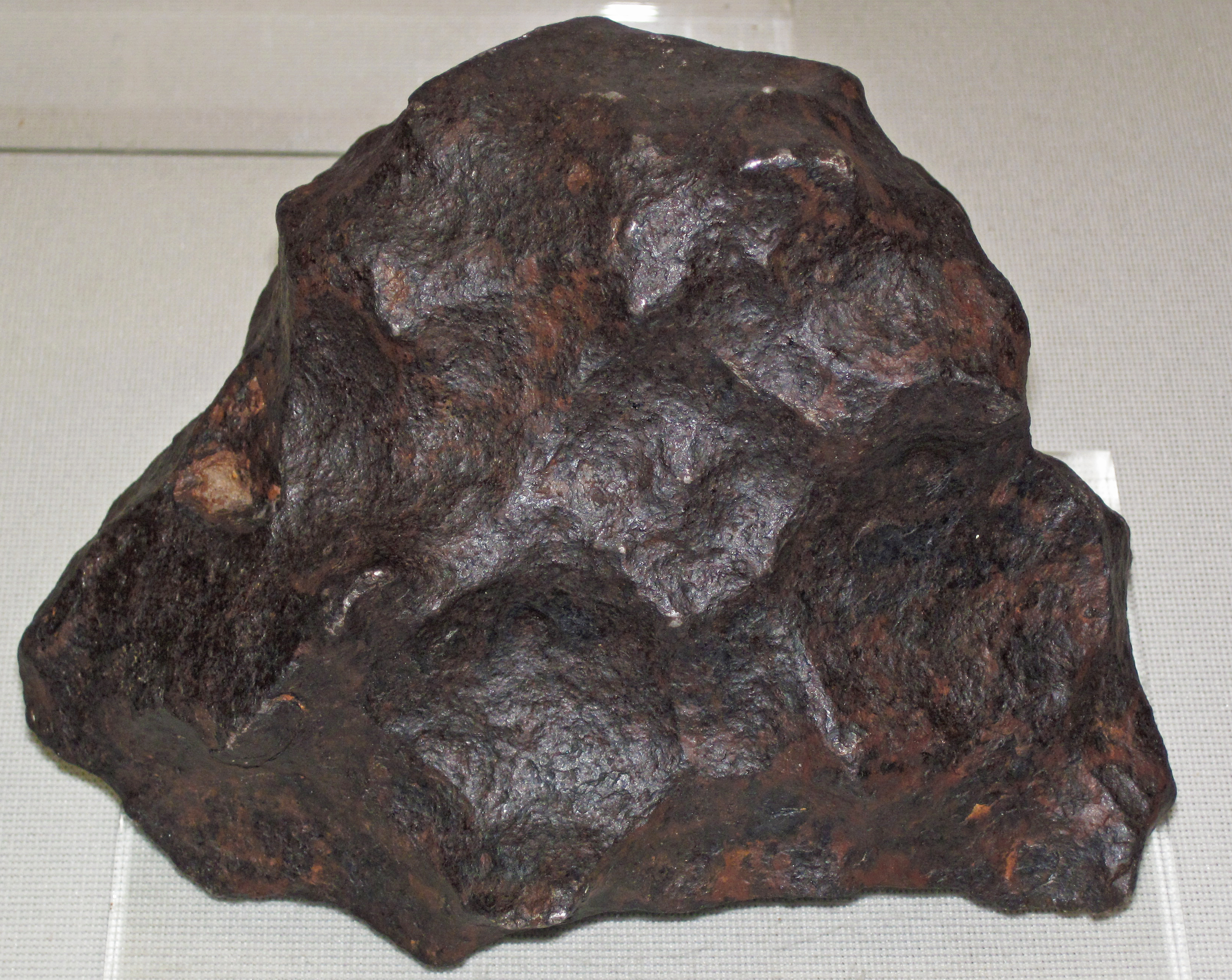 Canyon Diablo iron meteorite, individual sample.